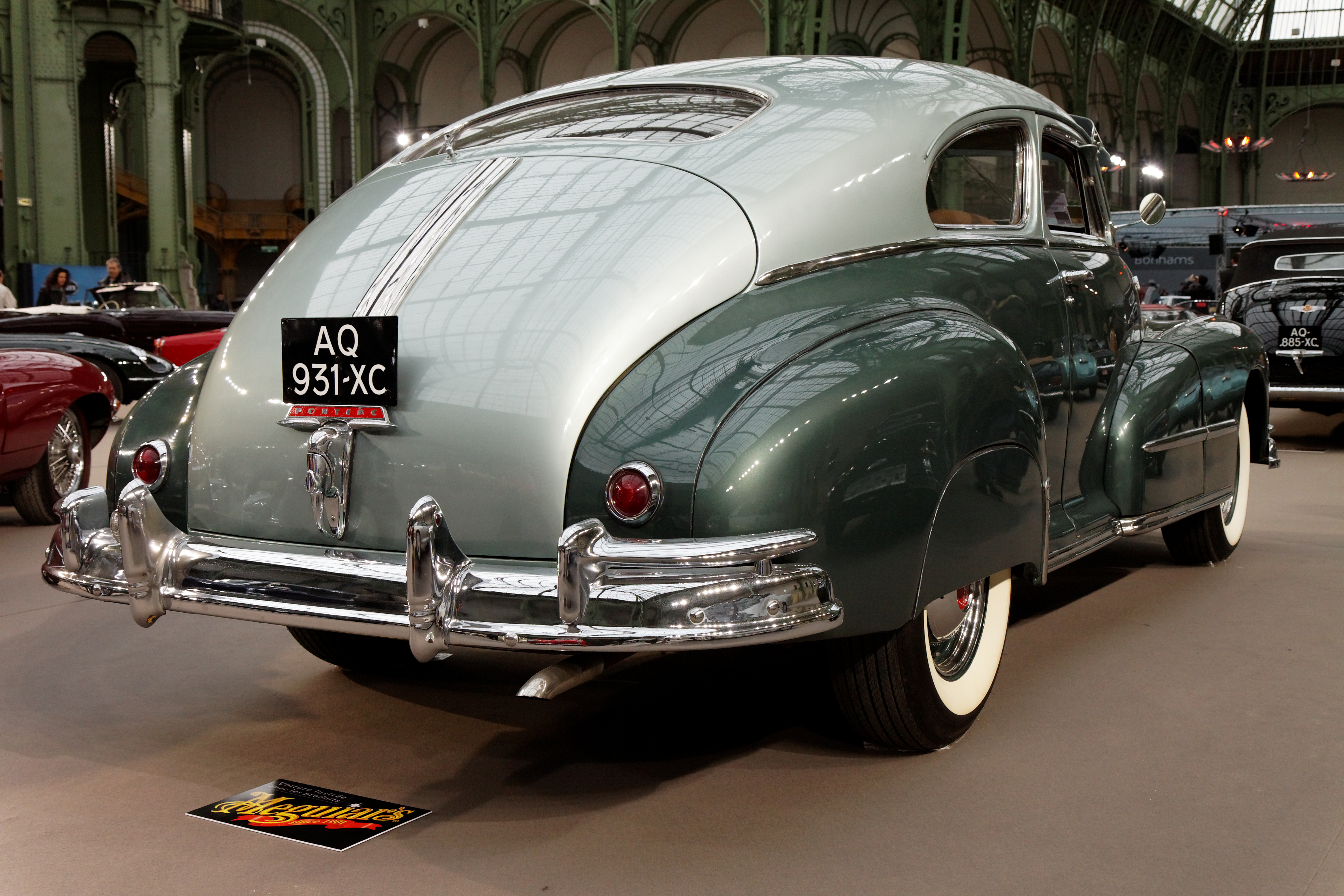 Pontiac Torpedo